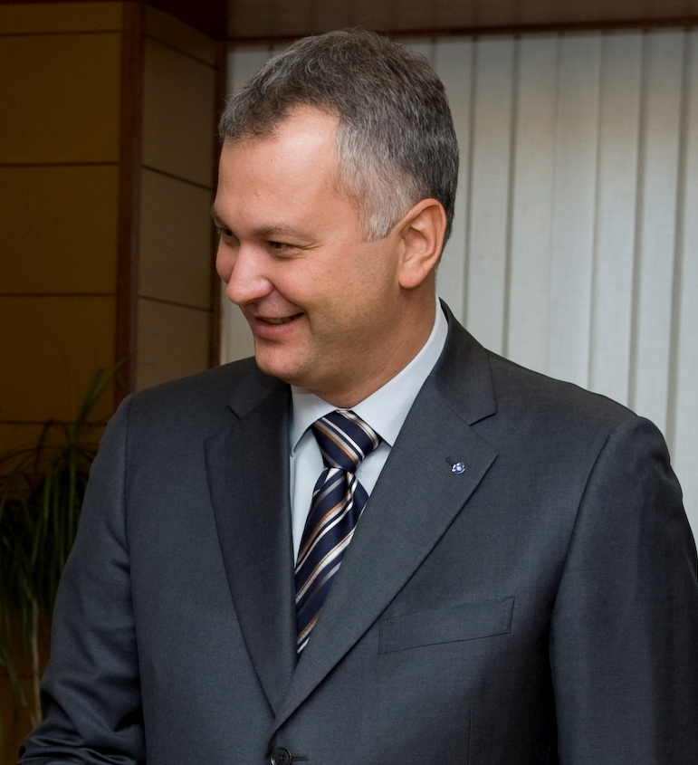 Dragan Sutanovac, minister of defense of Serbia, greets Chairman of the Joint Chiefs of Staff Navy Adm. Mike Mullen prior to an office call in Belgrade, Serbia, Oct. 20, 2008